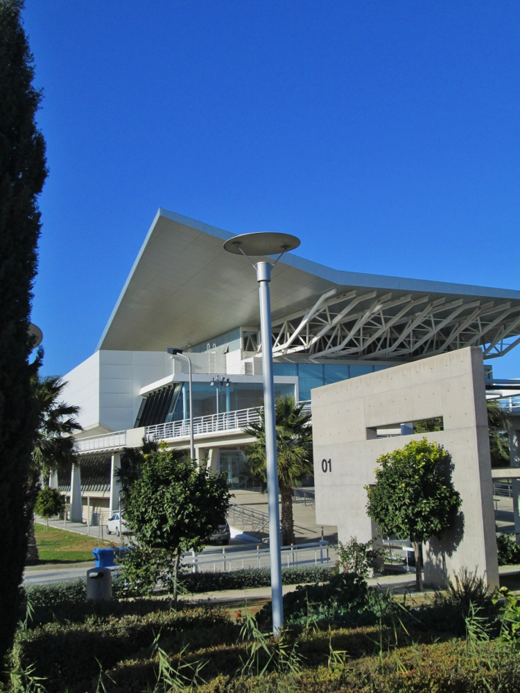 Gardens of University of Cyprus next to the Theatre Republic of Cyprus